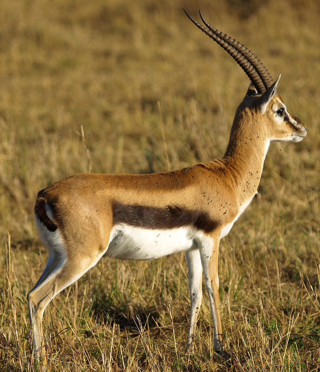 Thomson's Gazelle at Masai Mara, Kenya